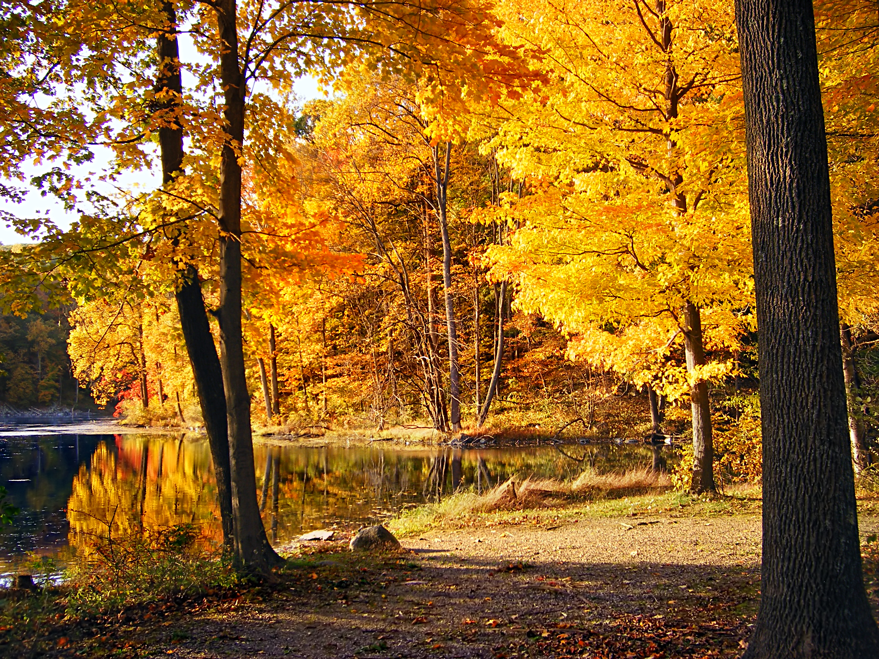 Deciduous forest, Ghost Lake, Warren County, within Jenny Jump State Forest. Bordering the lake is ominously named (but beautiful) Murderers' Mountain, a low-lying outlier of Jenny Jump Mountain.